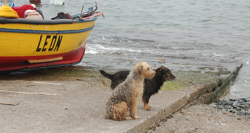 Two dogs wait the arrival of fishermen, in the coast of the fourth region of Chile.